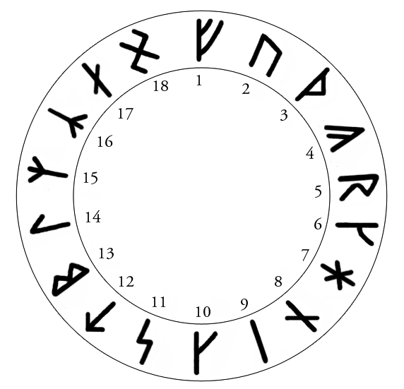 Guido von List's armanen runes arranged in a circle and given the numbers 1-18. Picture made by the uploader.